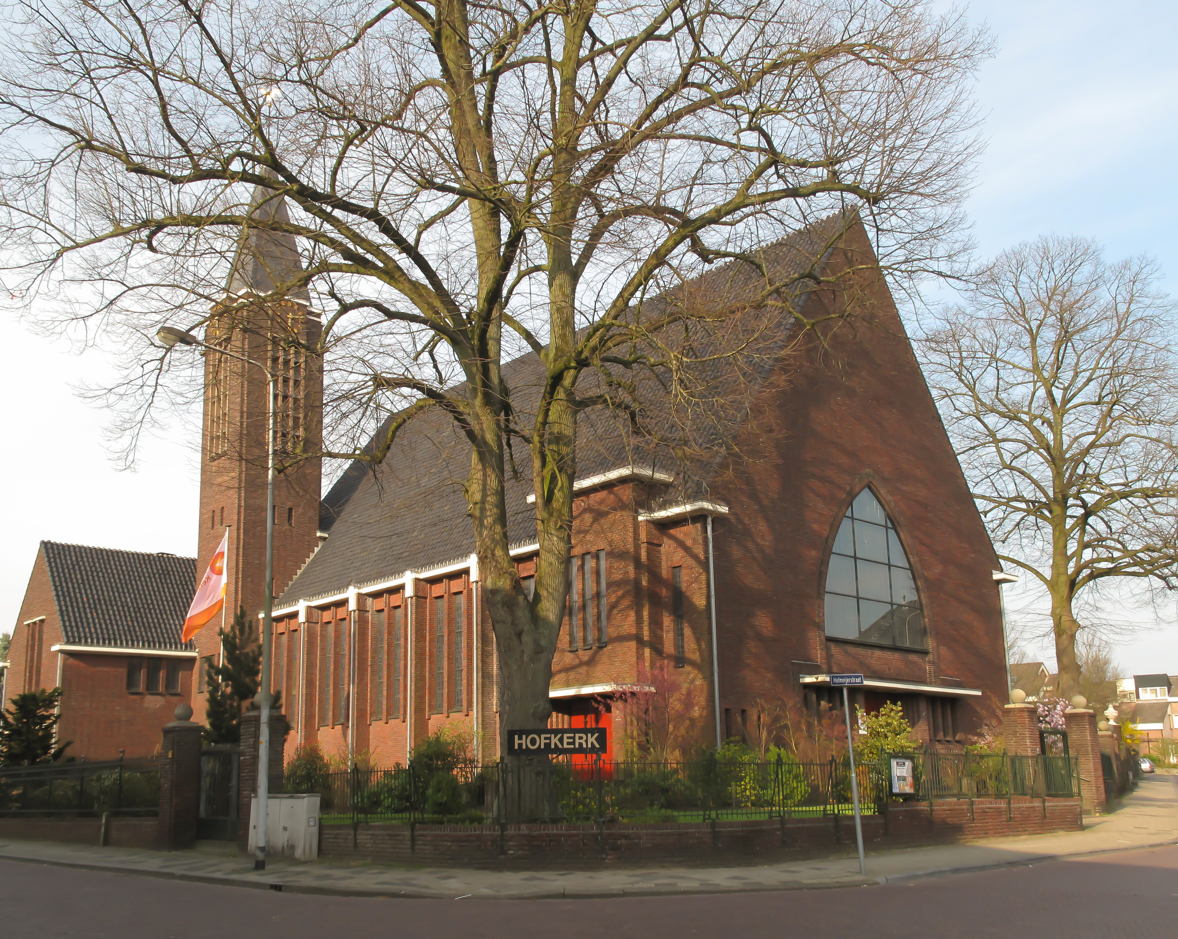 Oldenzaal, church: de Hofkerk